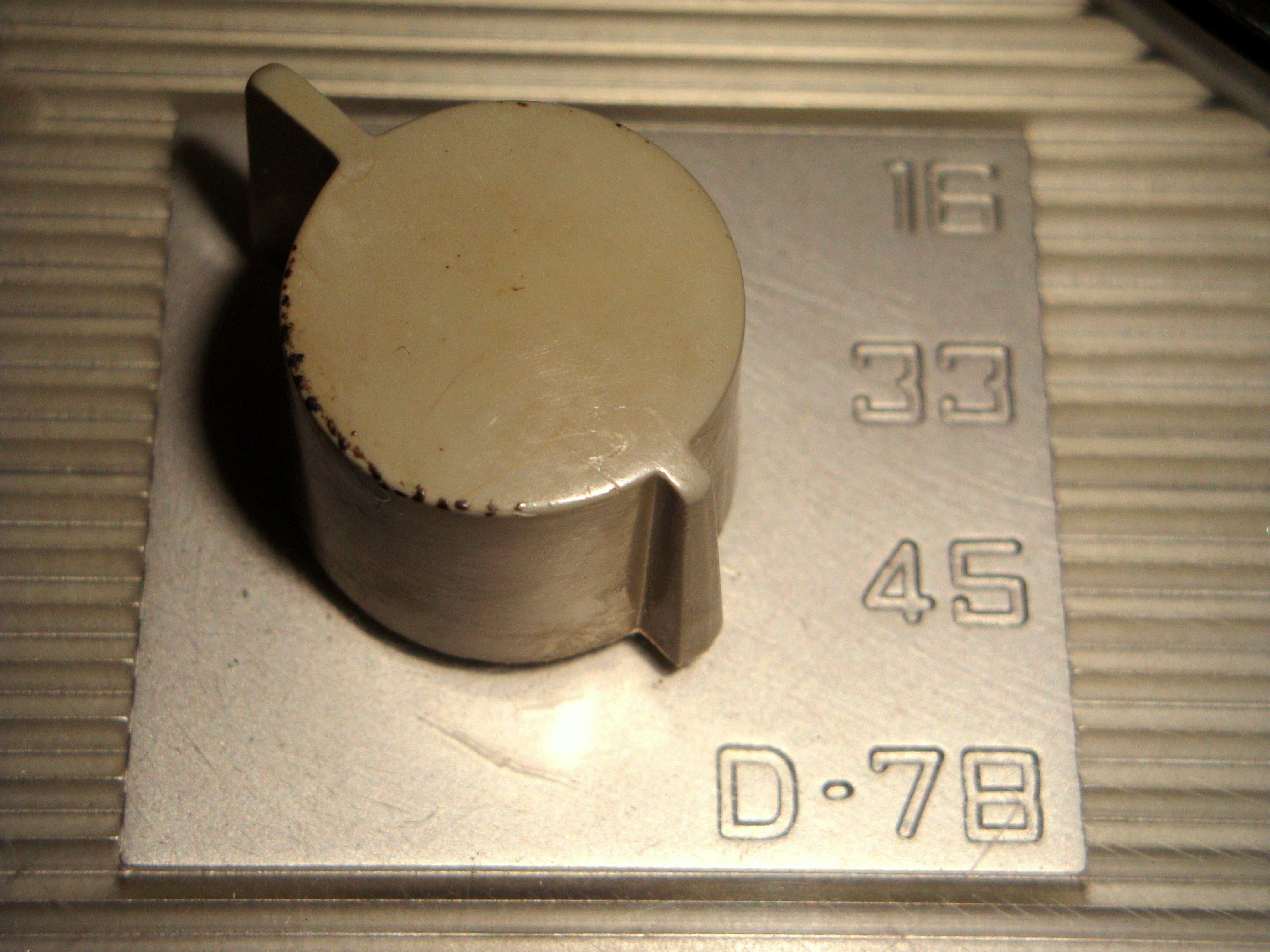 Speed selector (16-33-45-78) for a Winco turntable.